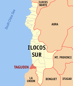 Map of Ilocos Sur showing the location of Tagudin